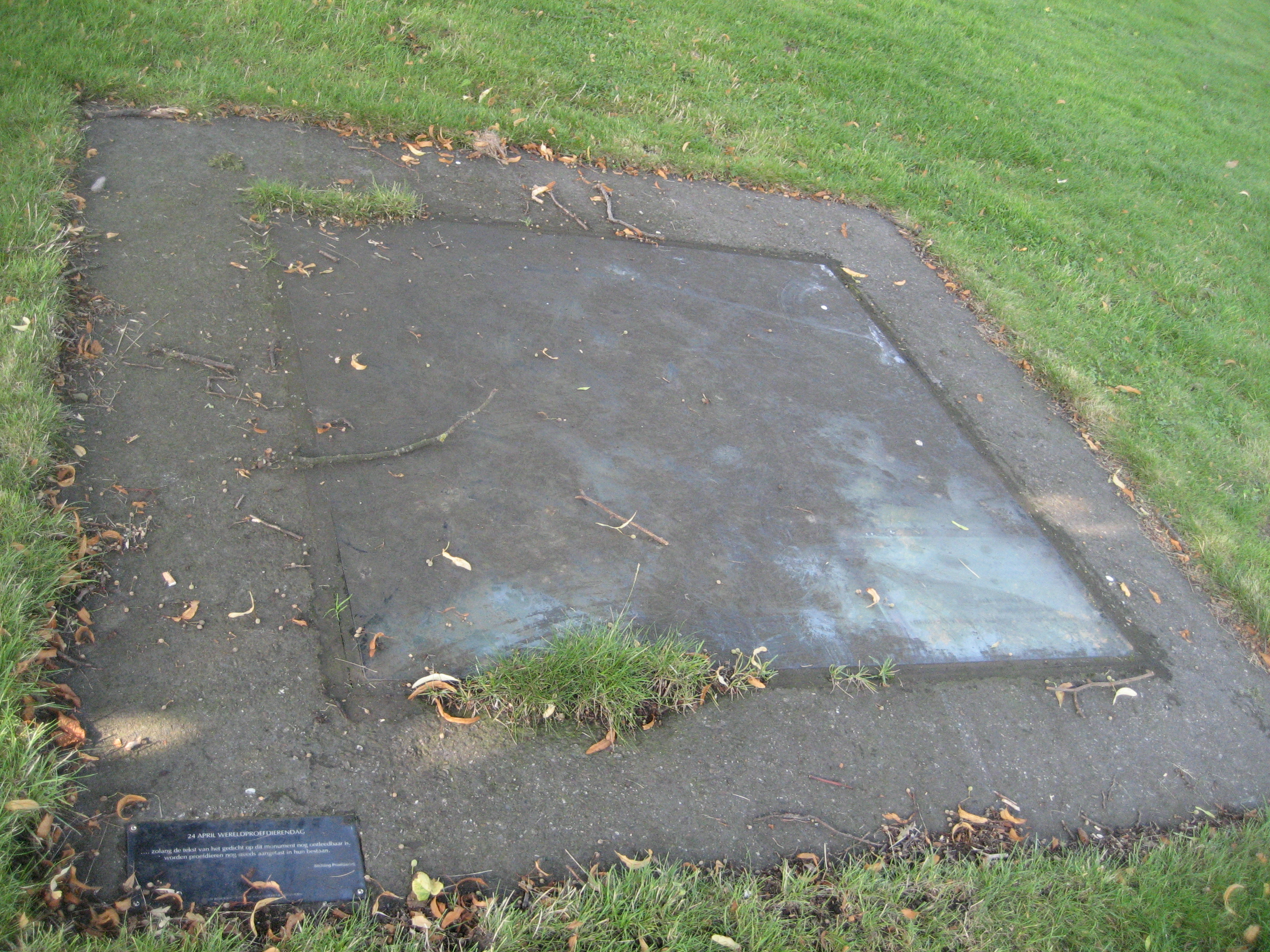 Sculpture in Voorschoten: "Monument against animal testing (1997) by Roboodt-R.J. Kleij. Near Oranjeplein 8, Voorschoten, the Netherlands